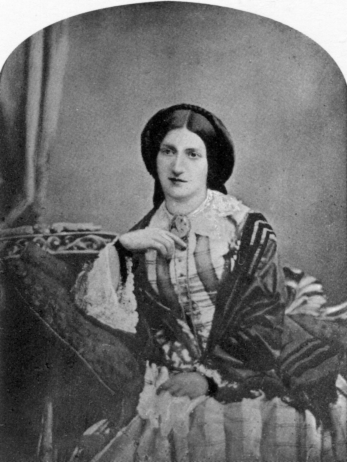 Isabella Beeton (1836-65). Hand-tinted albumen print, 184 x 149mm (7 1/4 x 5 7/8").